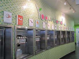 The inside of Yogurt land